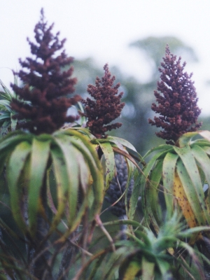 Dracophyllum traversii (Mountain Neinei), showing flower spikes. Mt Arthur, Kahurangi National Park, Aotearoa. Pentax K1000